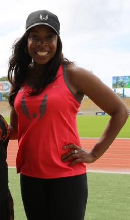 U. S Ambassador Frankie Reed with Hazel Clark.